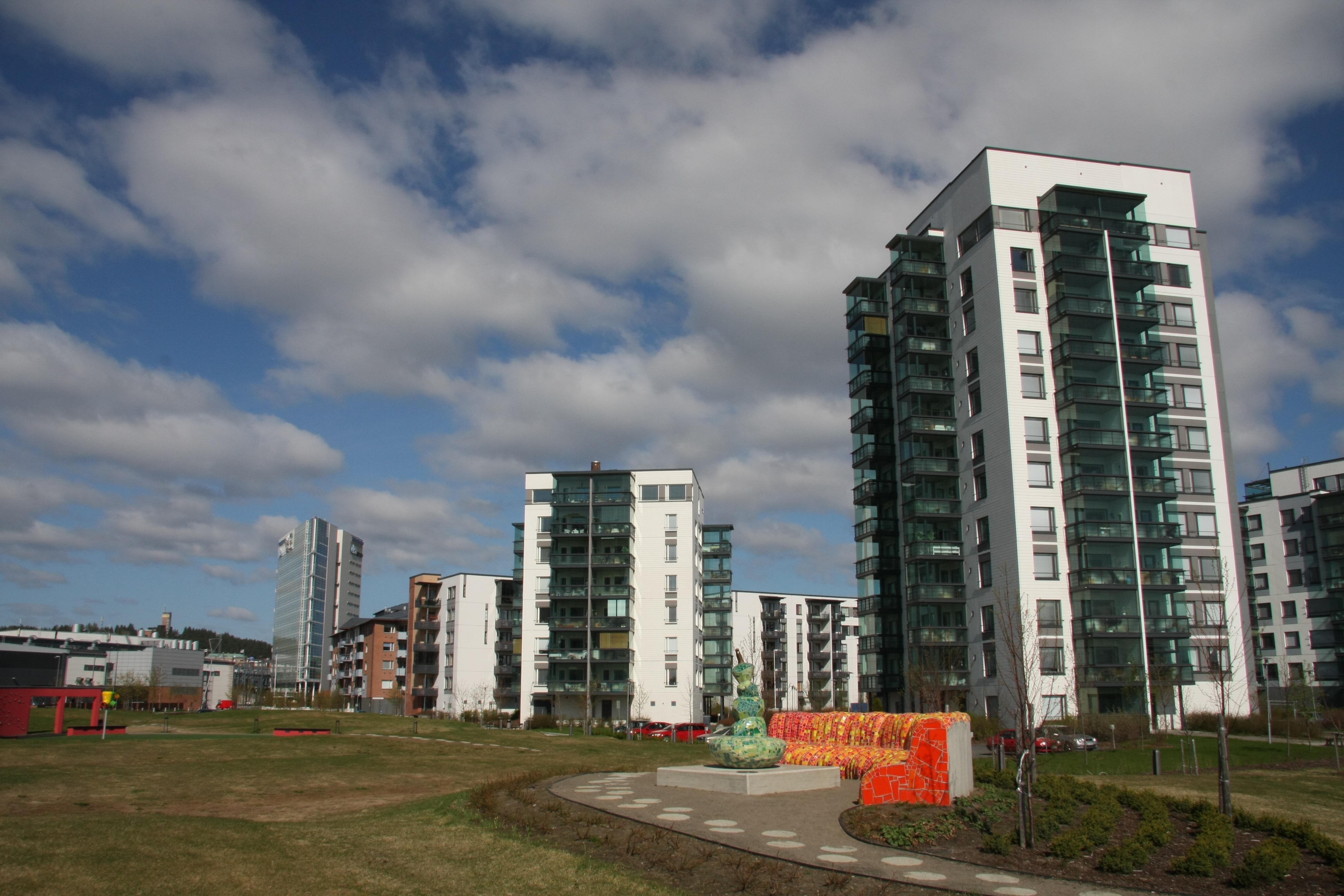 Lutakonpuisto (Park Lutakko), summer 2009.